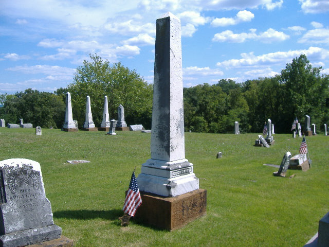 Gravestone of Joseph Cockerill located in West Union, Ohio.